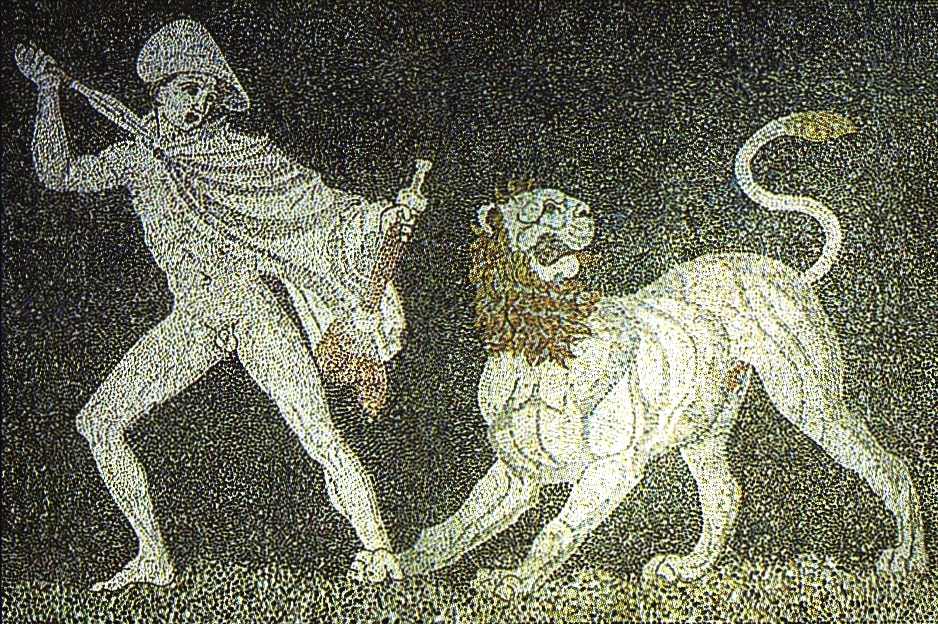 Alexander fighting a lion. 3rd century BC mosaic. Pella Museum, Greece. Source: "Alexandre le Grand, de la Grece a l'Inde". In the complete image Craterus is depicted as rescuing Alexander from the lion during their hunt at Sidon in 333.